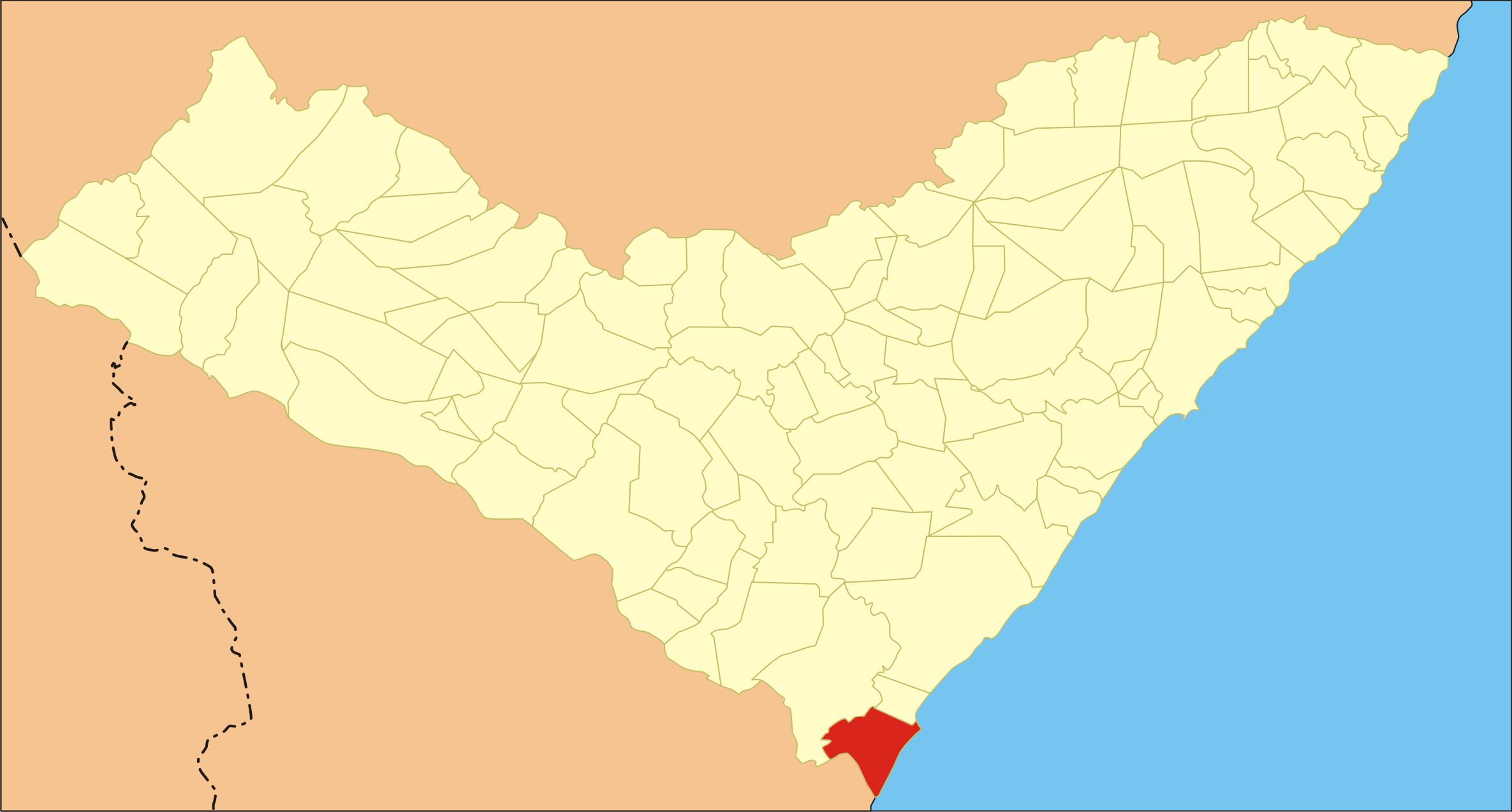 City localization in Alagoas